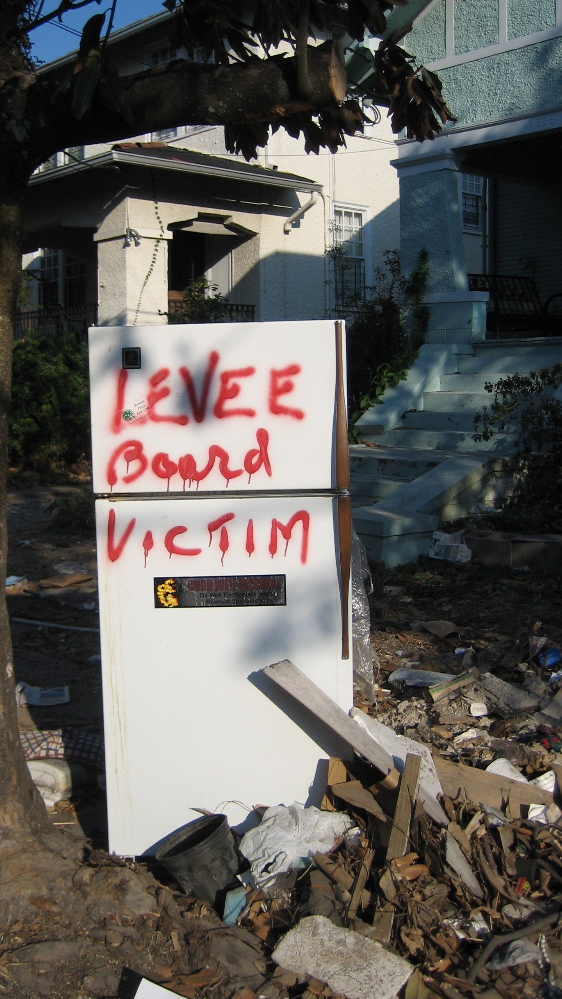 New Orleans after Hurricane Katrina: Trashed refrigerator with graffitti critical of Orleans Levee Board. Broadway Avenue, Friburg section of Uptown.